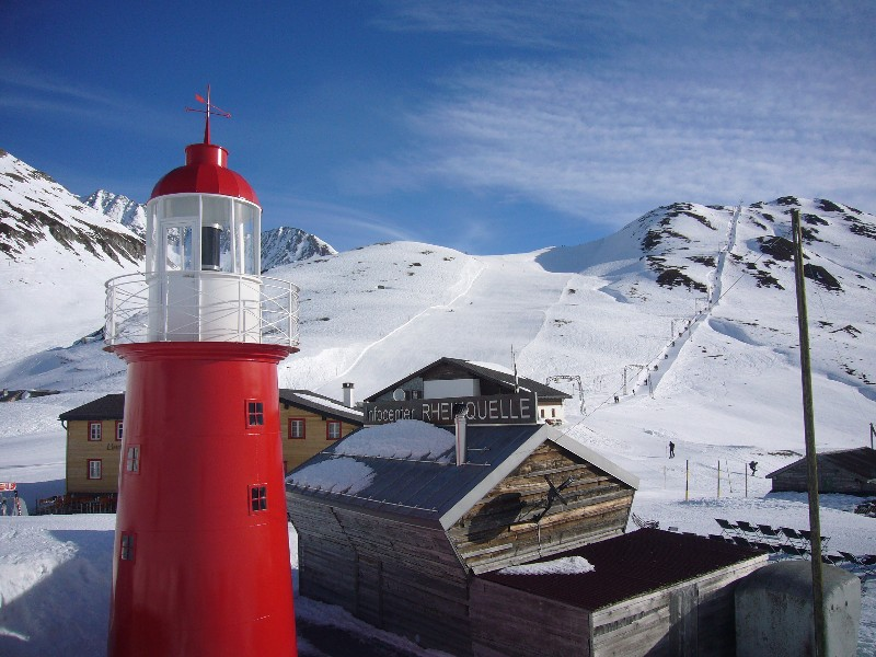 Oberalp Pass railway line brings skiers from Andermatt to the pass from where they can use the Sedrun ski area.